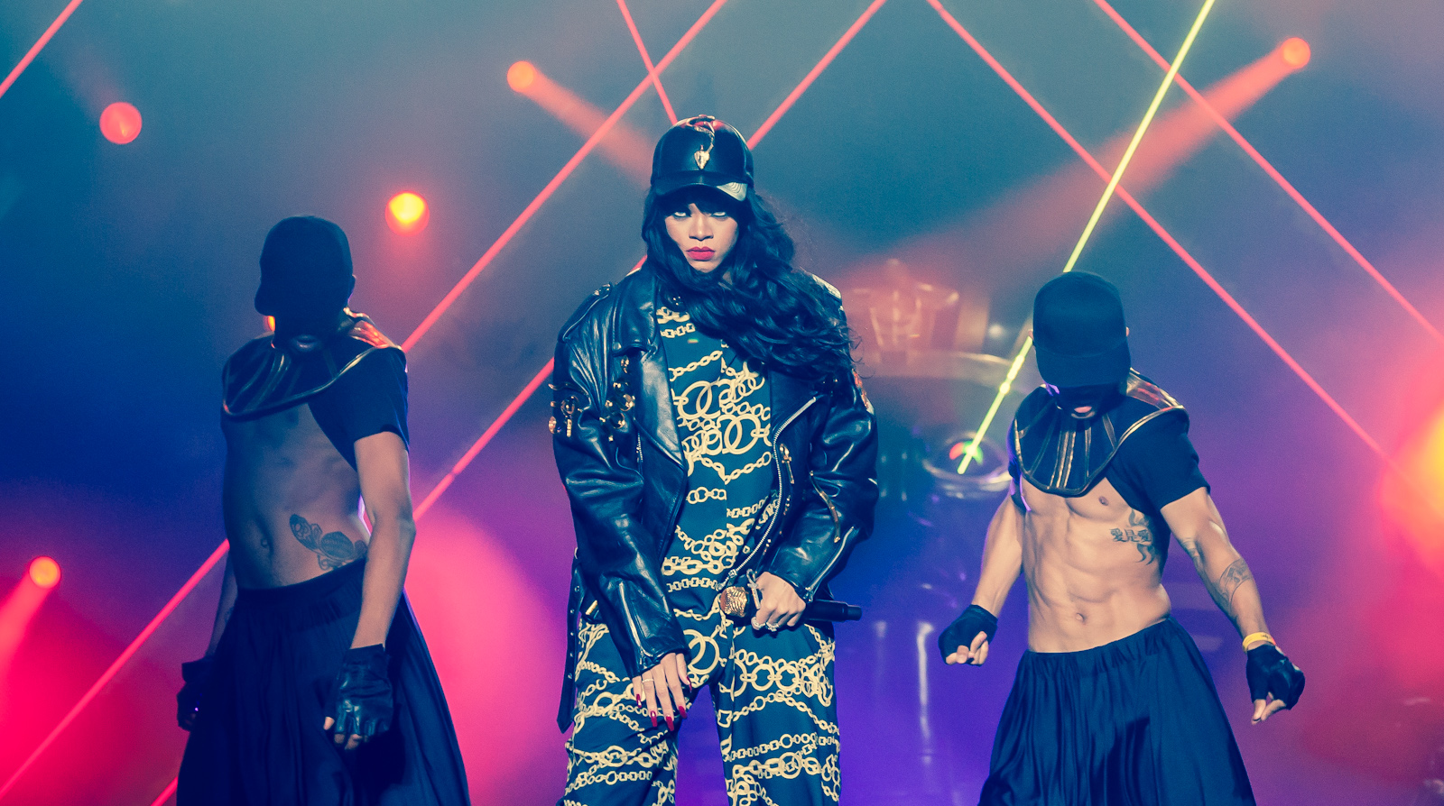 Rihanna with dancers live at Kollen Music Festival 2012